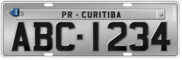 Brazilian vehicle identification plate, since 2008.